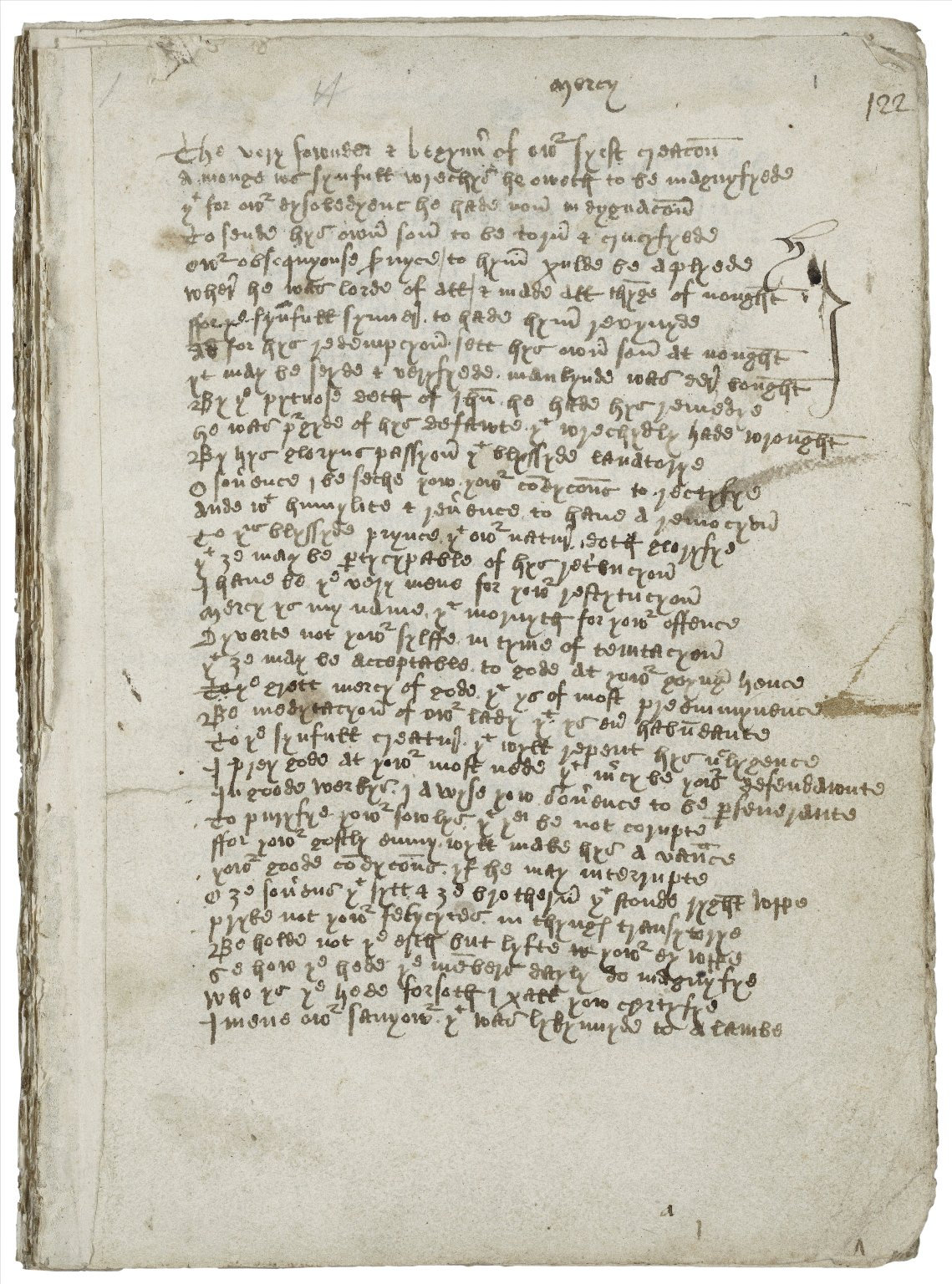 A page from the 15th century morality play Mankind